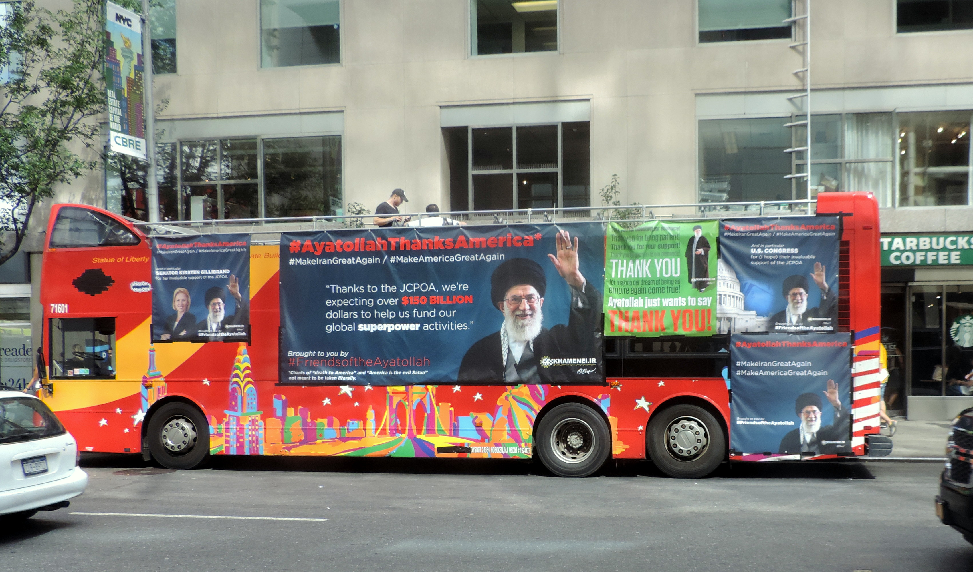 Looking south across West 58th Street at bus carrying a banner allegedly from Iran about JCPOA